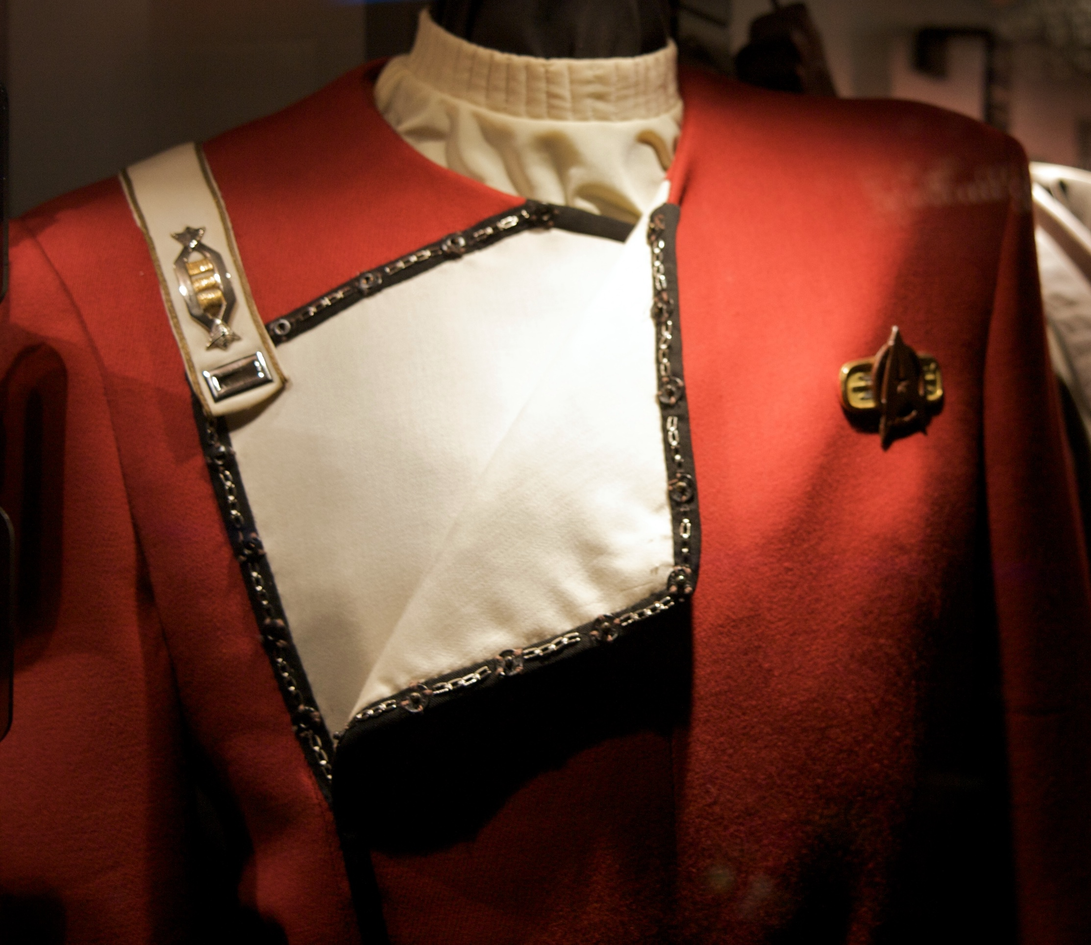 Starfleet uniform on display at Star Trek: The Experience.